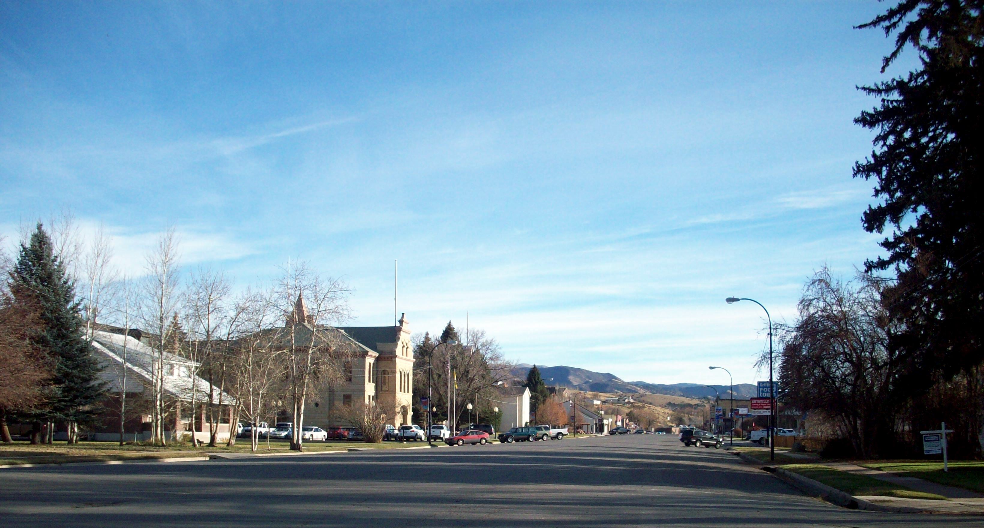 Main street of Coalville, Utah. November 17, 2008.